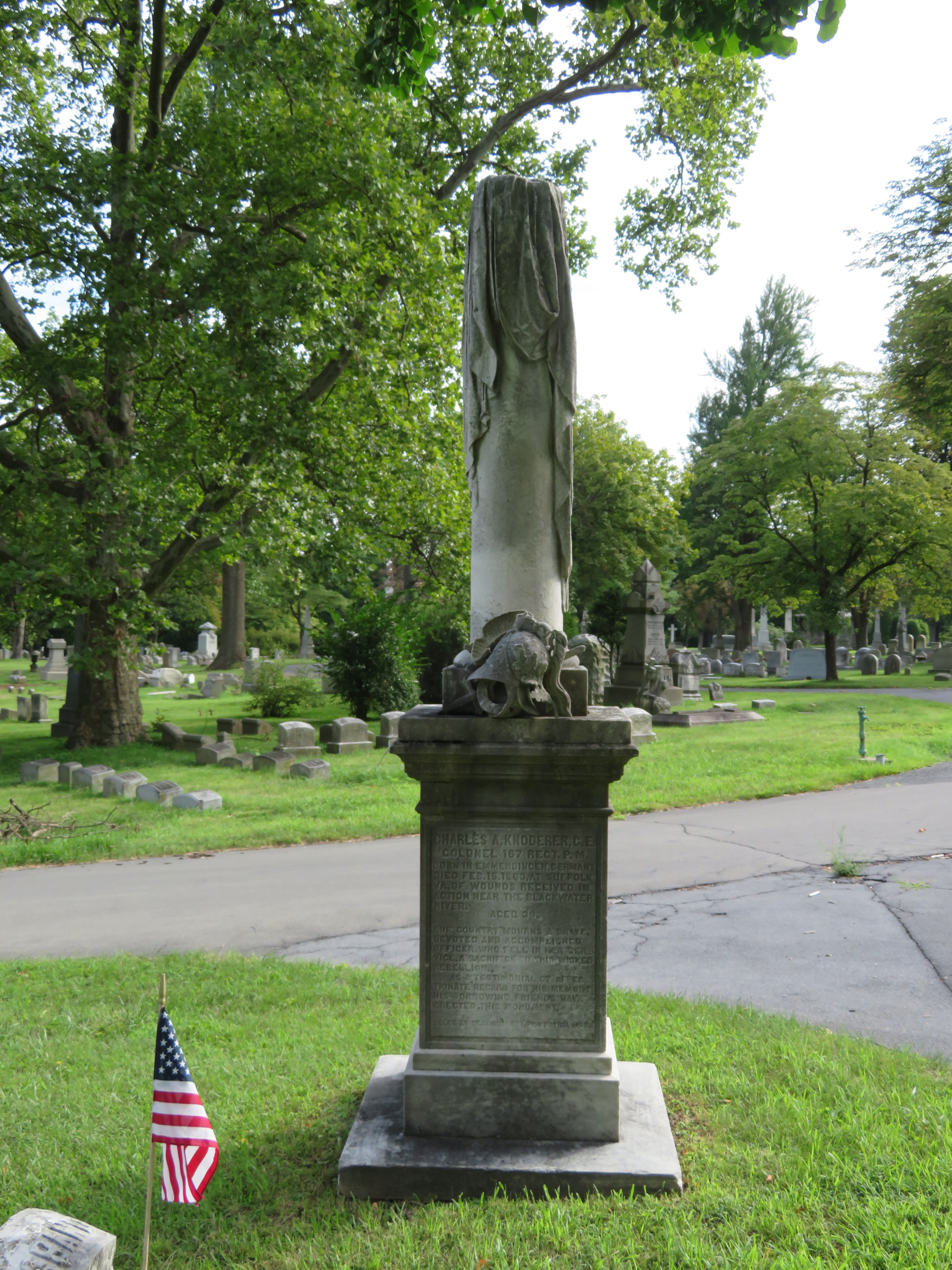 Grave of at Charles Evas Cemetery in Reading, PA